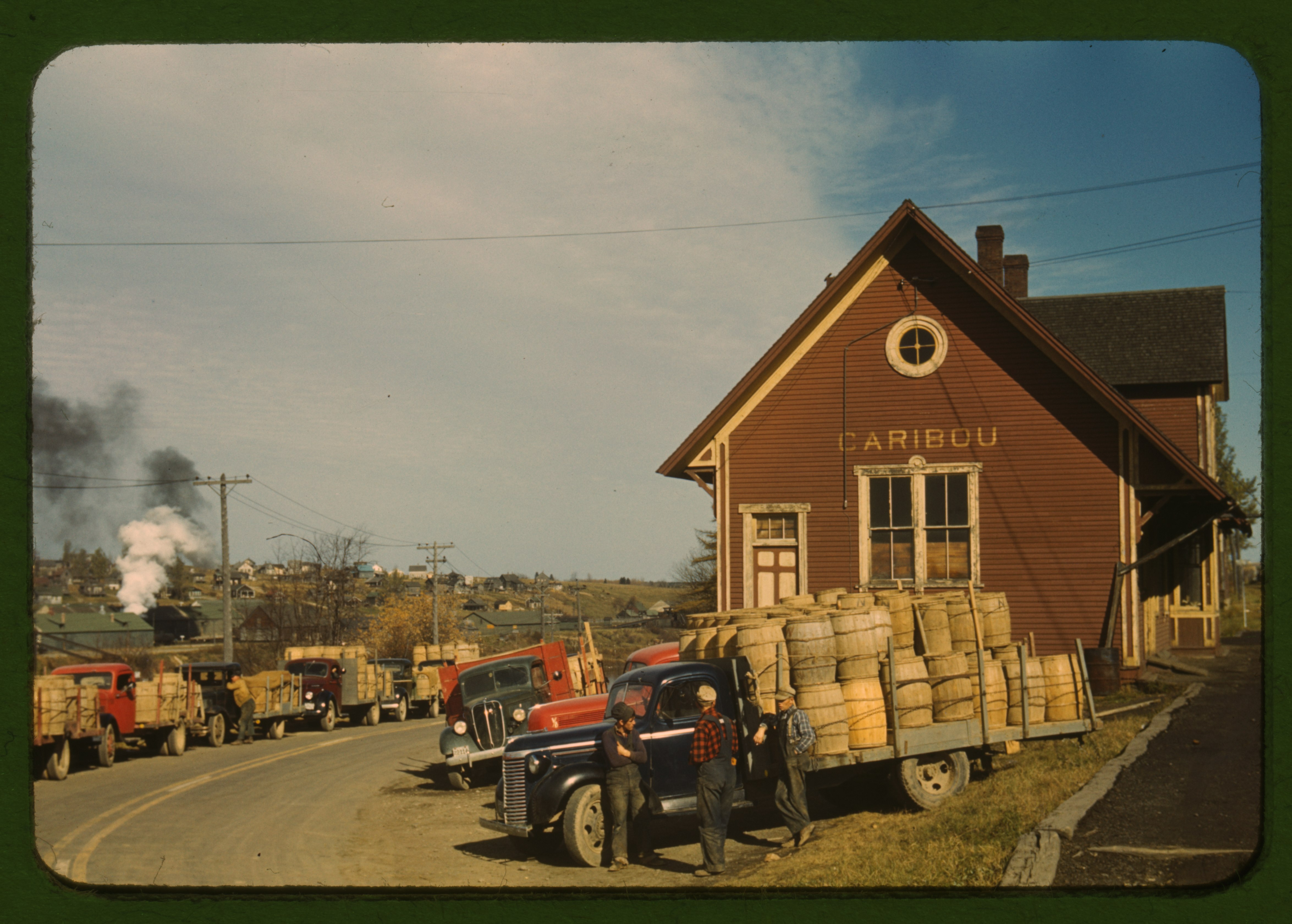 Title: Trucks outside of a starch factory, Caribou, Aroostook County, Me. There were almost fifty trucks in the line. Some had been waiting for twenty-four hours for the potatoes to be graded and weighed Abstract/medium: 1 slide : color.